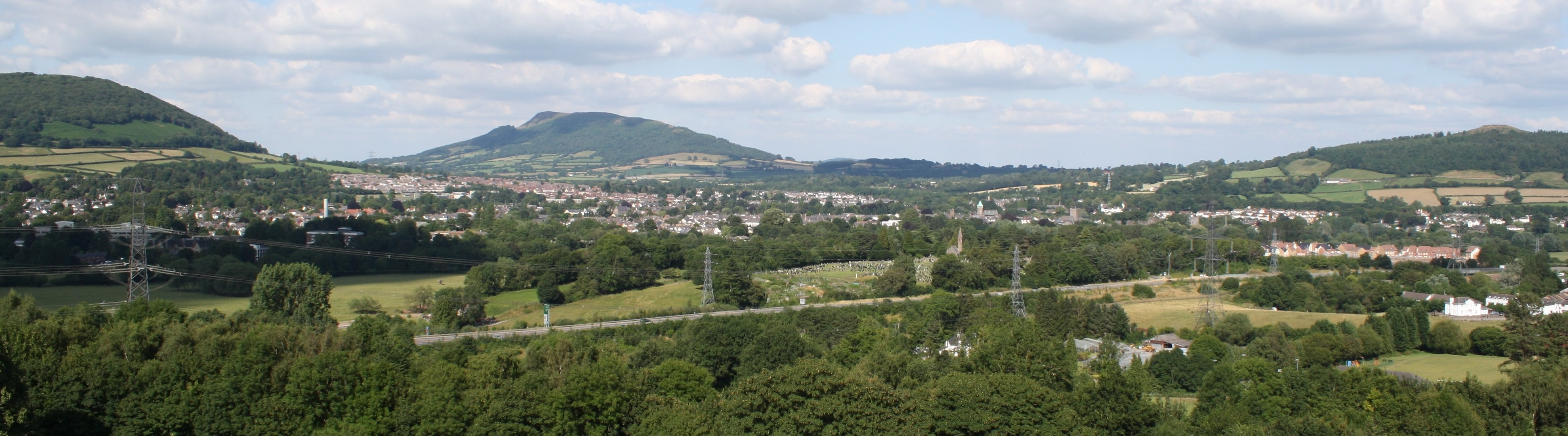 This is a view of the town of Abergavenny in Wales as taken from the canal that runs along the south of the town at the point where the canal bank was repaired in 2014.